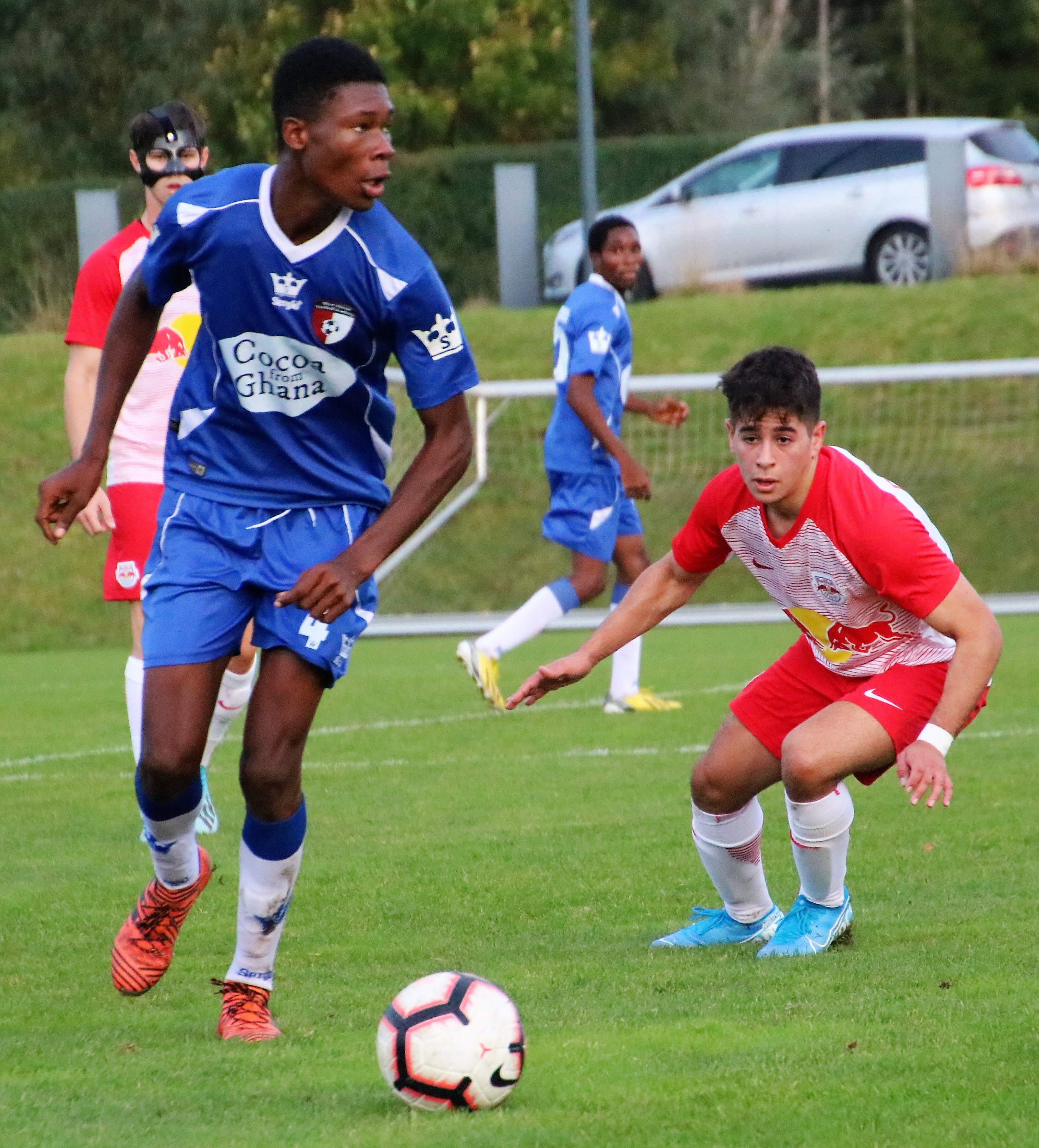 Friendly match during the Wafa U18 stay at Salzburg